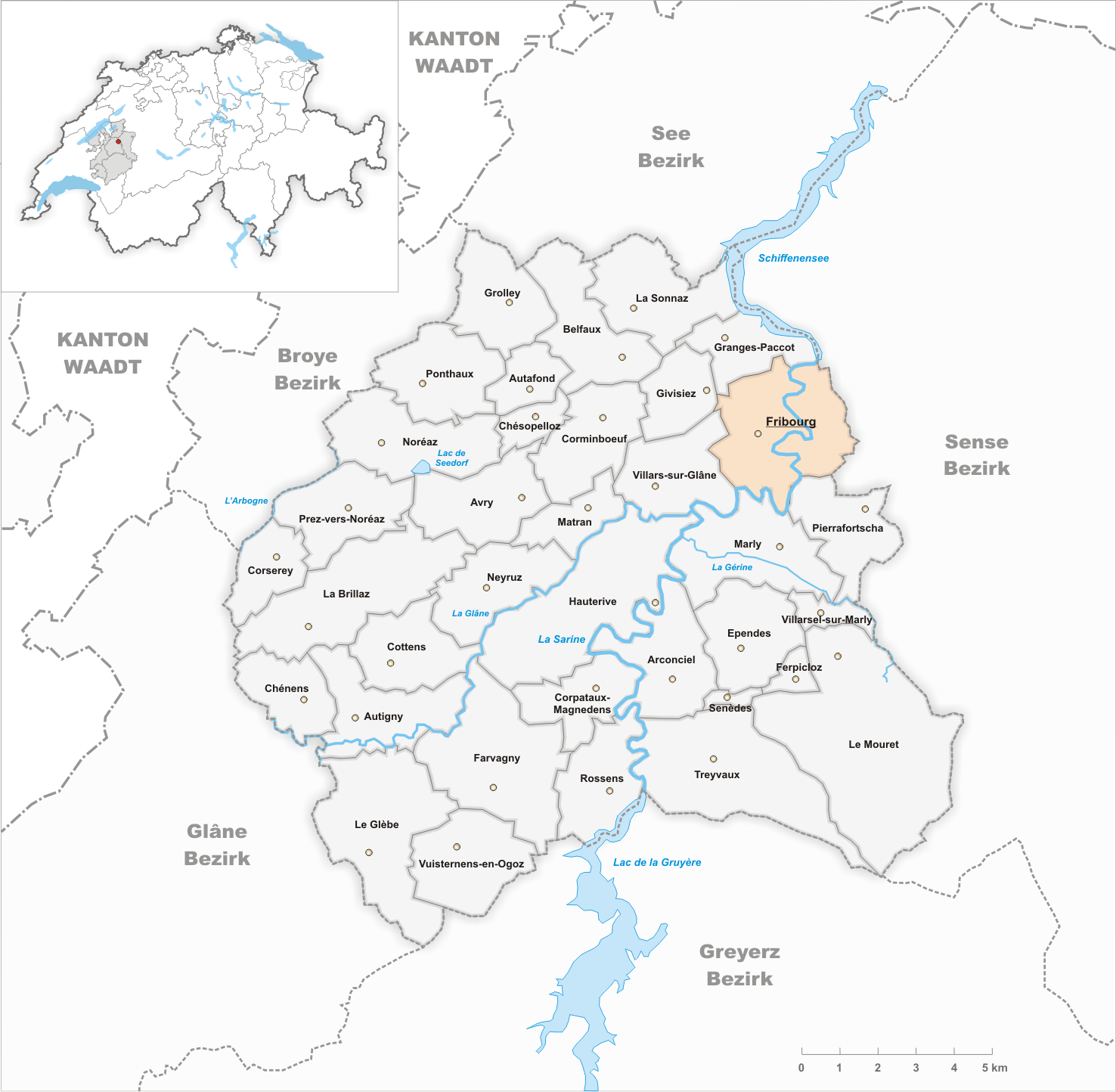 Municipality Fribourg